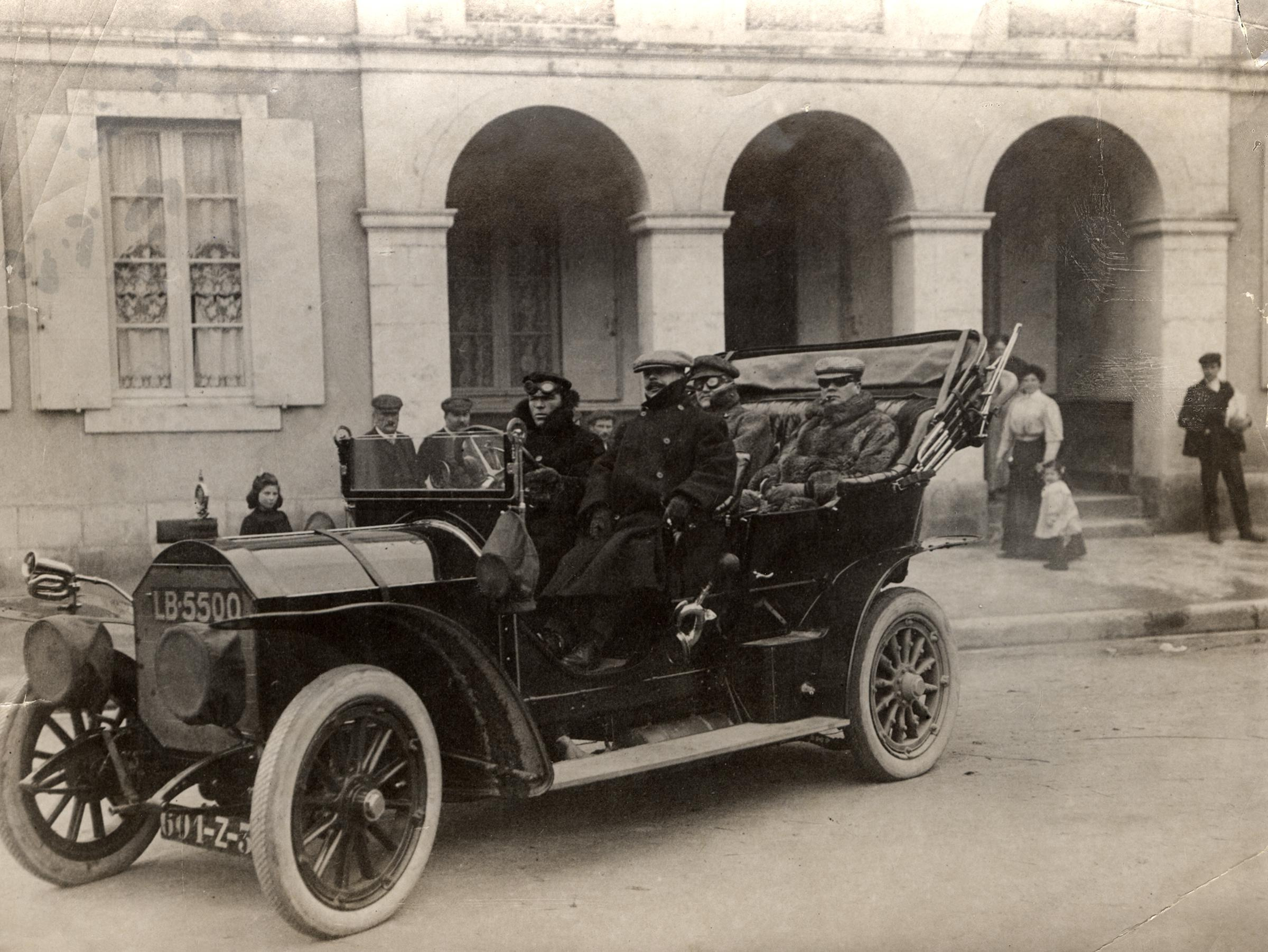 Alfred Harmsworth, 1st Viscount Northcliffe in his car with three unknown men, by unknown artist, given to the National Portrait Gallery, London in 2002. All images in this batch have an unknown author, but there is strong evidence it was first published before 1923 (based mainly on the NPG's estimated date of the work).